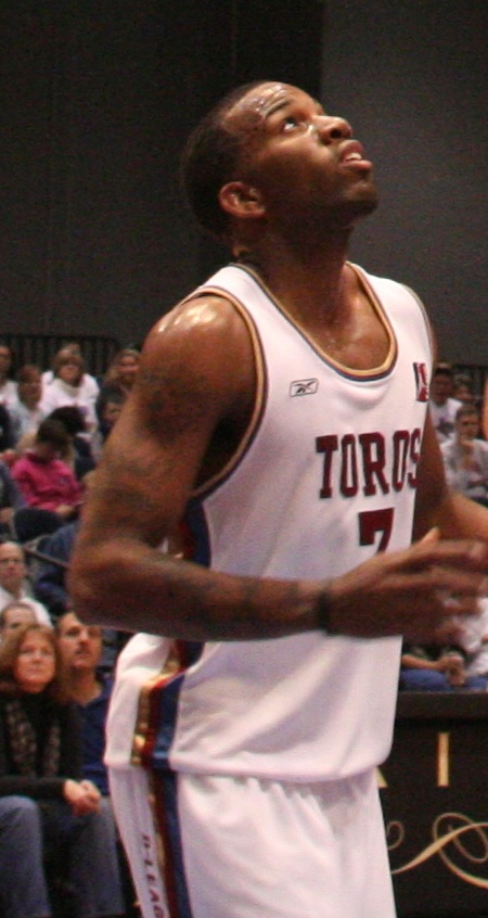 Game action in NBA Development League game between Arkansas RimRockers and Austin Toros at the Austin Convention Center, Austin, Texas, Jan. 27, 2006.